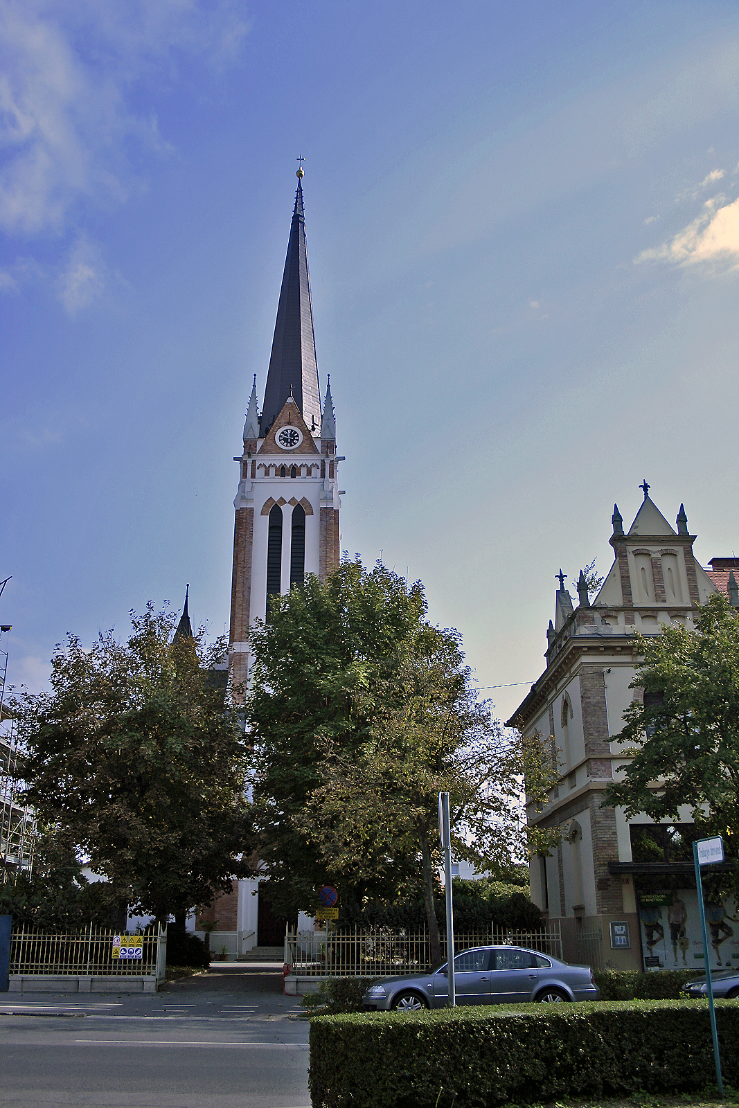 Evangelical church, Murska Sobota.